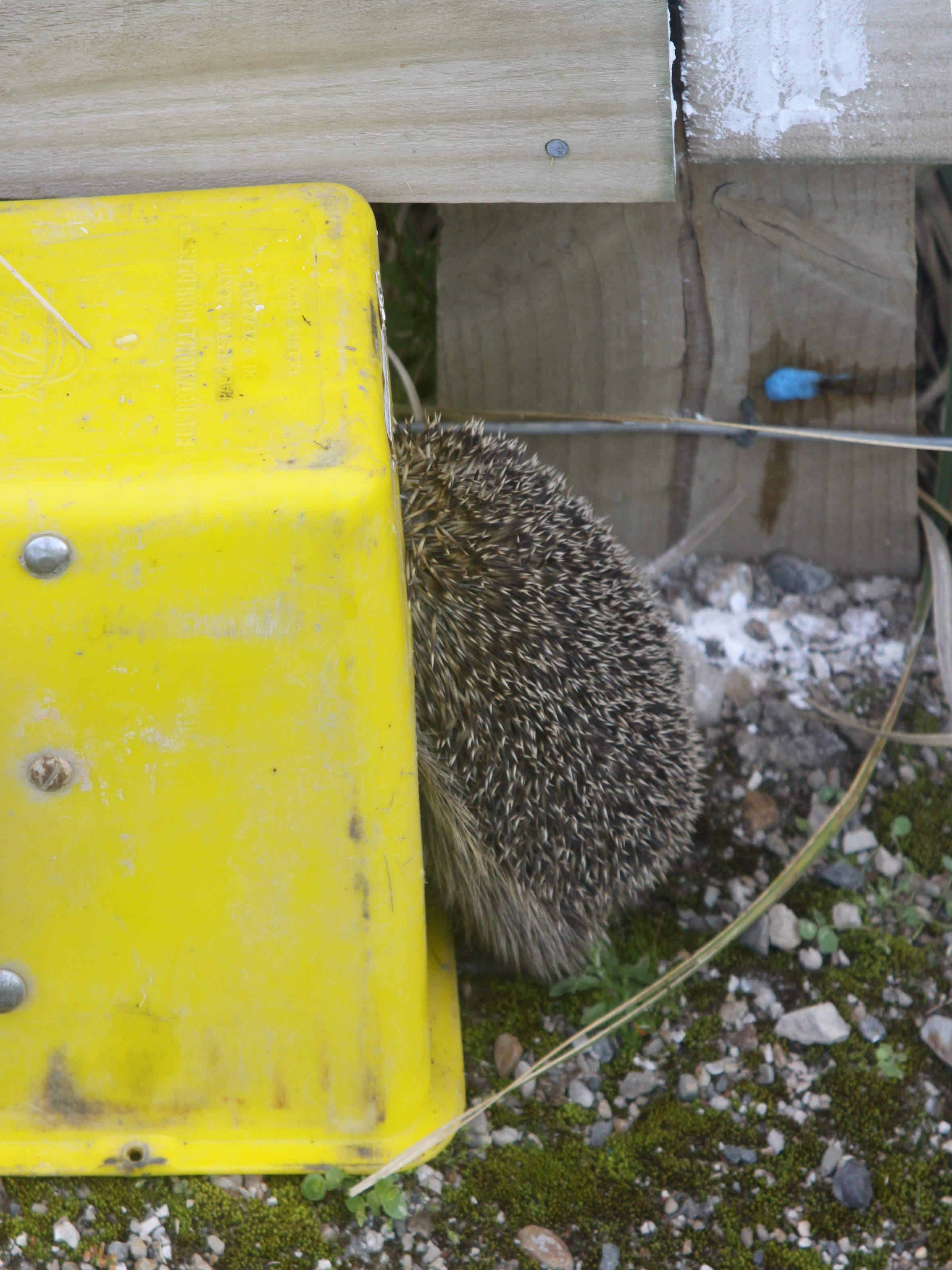 Hedgehog caught in a Timms trap, generally used for possum control, so this may have been an unintended target. Riversdale, New Zealand.